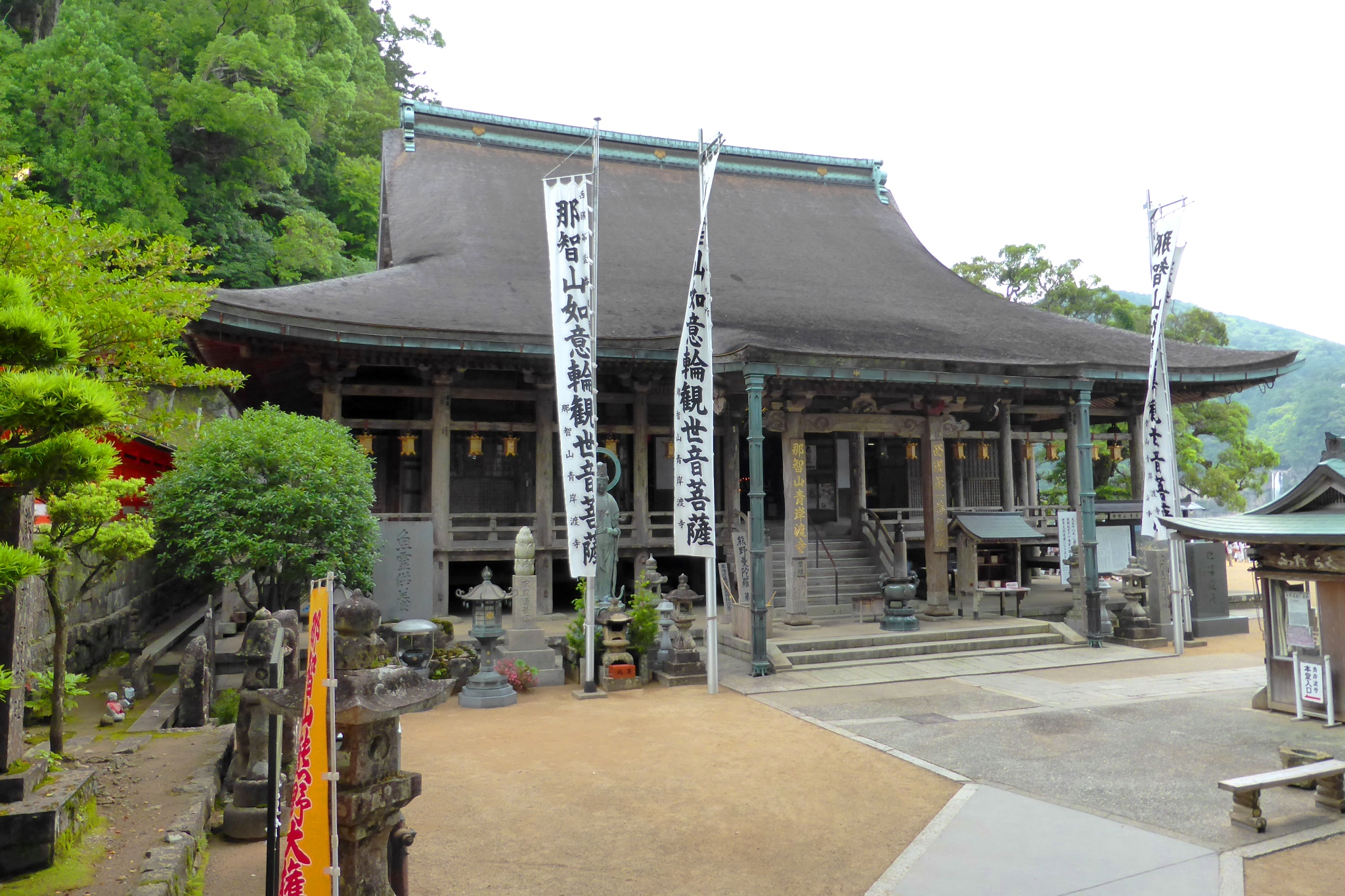 Seiganto-ji, Hondo (Main Hall) -1 (June 2014)